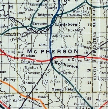 Stouffer's Railroad Map of Kansas, 1915-1918, McPherson County.